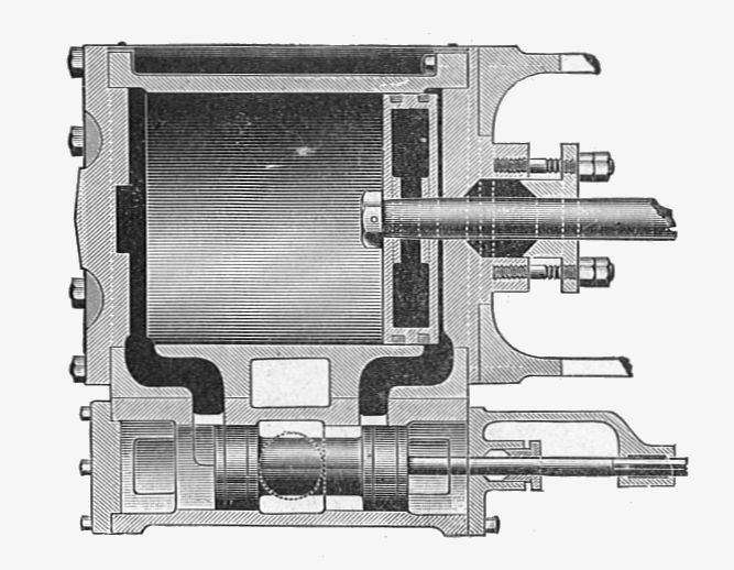 Cylinder and piston valve (New Catechism of the Steam Engine, 1904).jpg